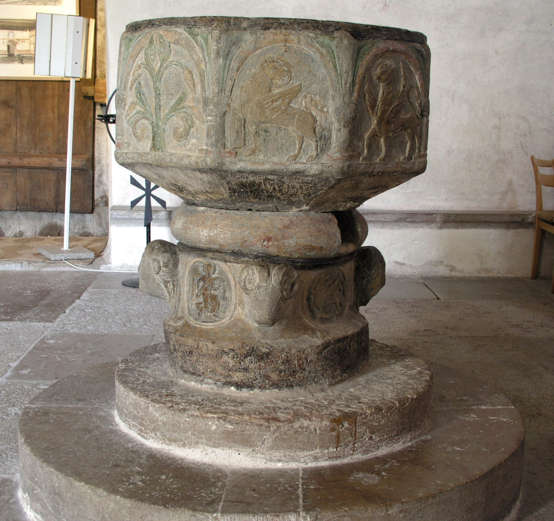 Garda (Garde) kyrka / Garda (Garde) church is situated at Garde, Gotland, Sweden